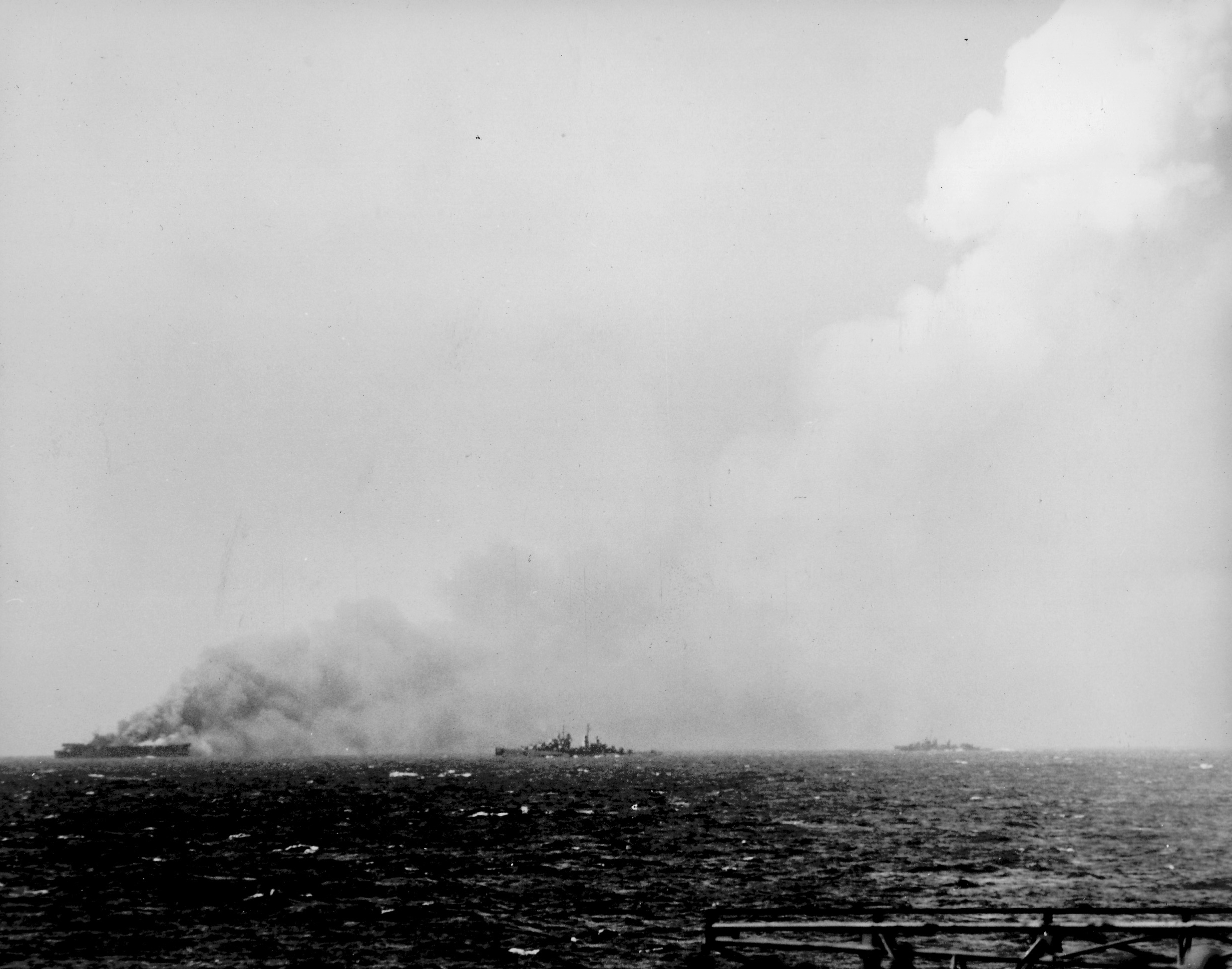 The U.S. Navy light aircraft carrier USS Princeton (CVL-23) afire after a bomb hit on 24 October 1944. The light cruiser USS Reno (CL-96) and the destroyer USS Morrison (DD-560) are closing to aid the carrier.